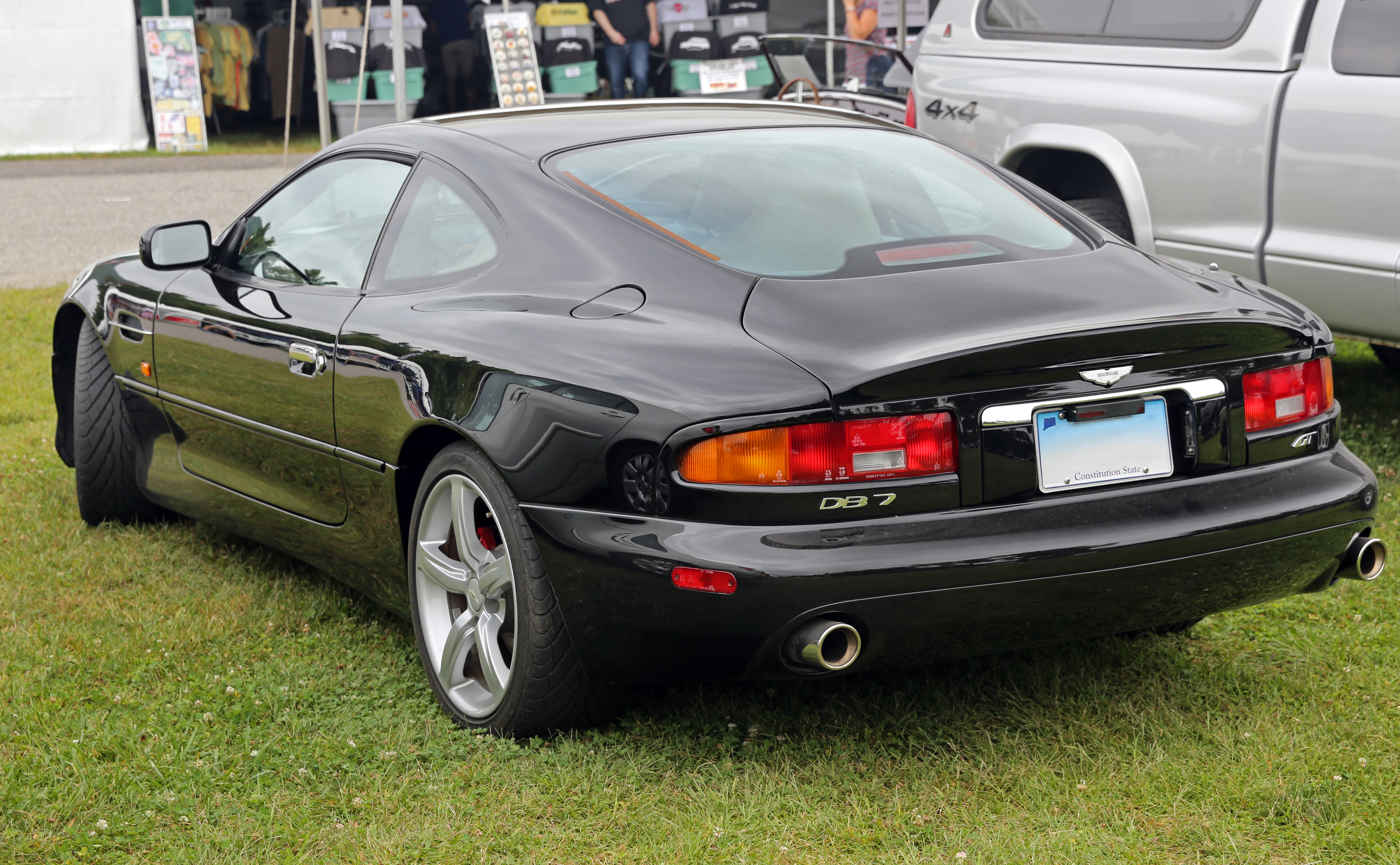 A 2003 Aston Martin DB7 GT in the central parking area at the 2014 Lime Rock Concours d'Élegance. Only 302 DB7 GTs were built, most of them manuals. The GT has a unique bootlid, incorporating a large but still subtle rear spoiler.